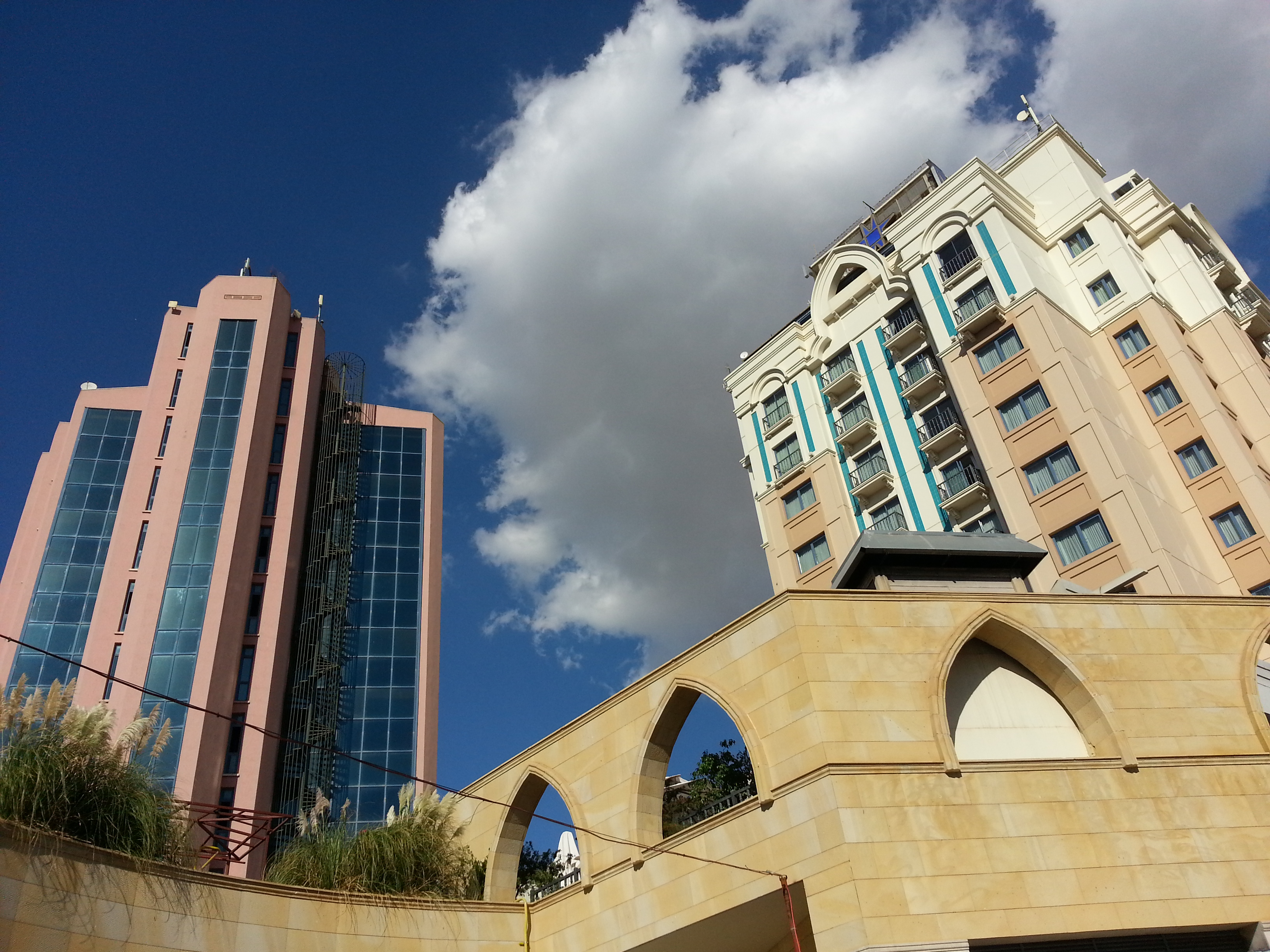 The Merit Hotel and YAR Headquarters, two of the tallest buildings in North Nicosia.